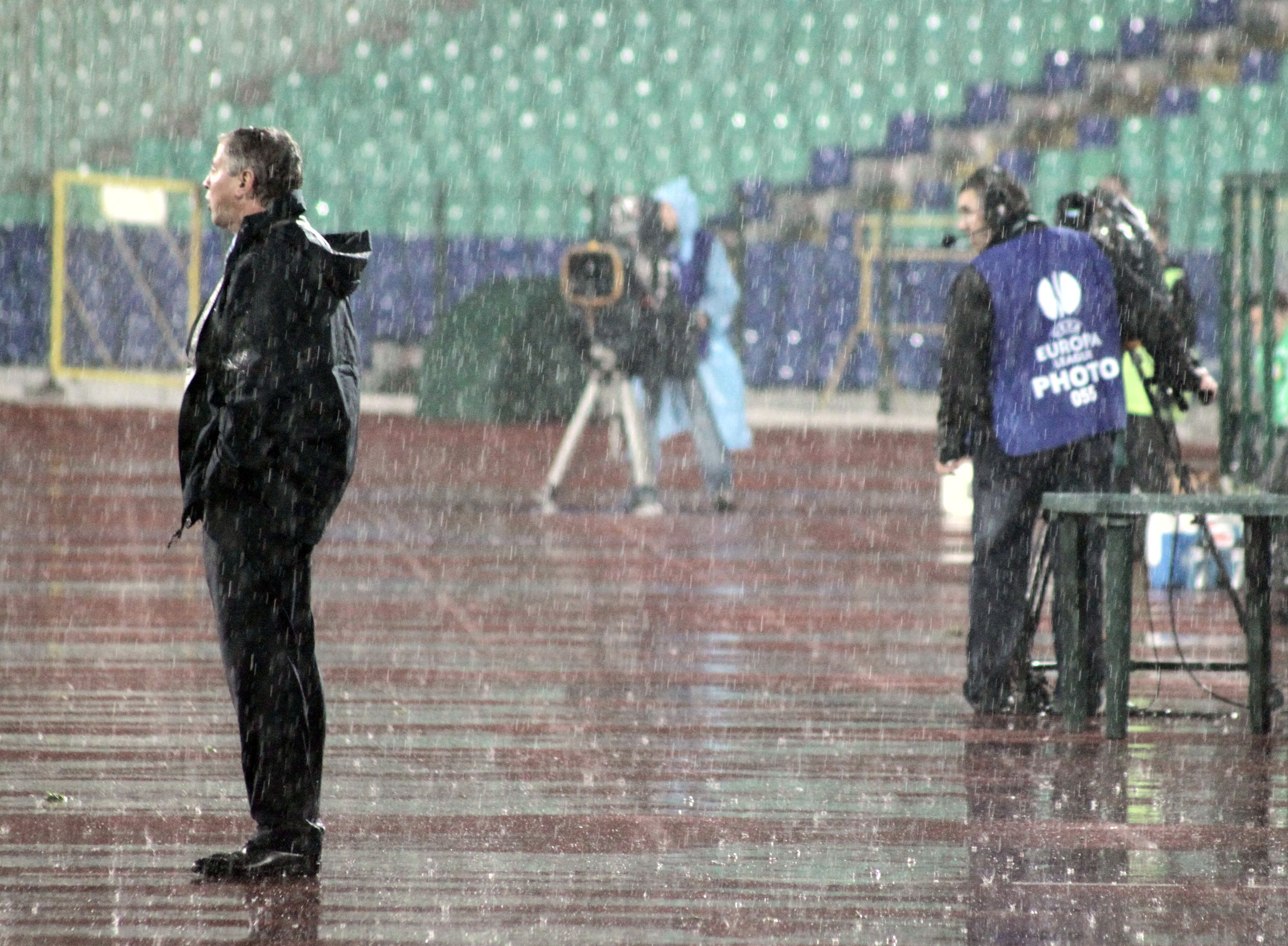 Vladimir Petrović (Serbian: Владимир Петровић) (born July 1, 1955 in Belgrade, Serbia, widely known by his nickname Pižon (Serbian: Пижон, after the French for pigeon) is a Serbian former football player and coach, managing the Serbian national team as of 2010.